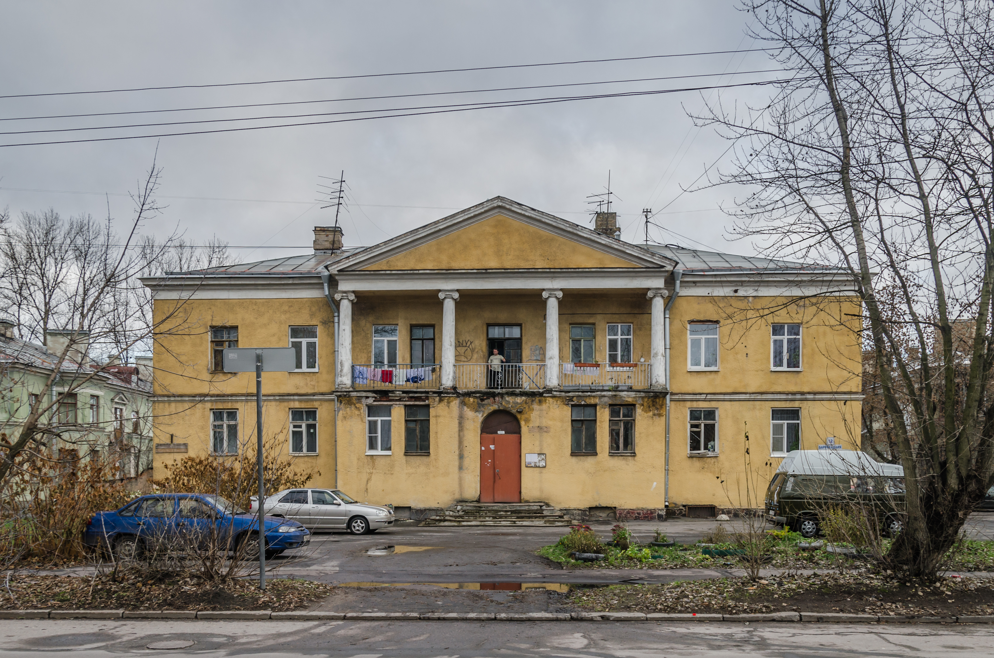 Barrikadnaya street in Saint Petersburg